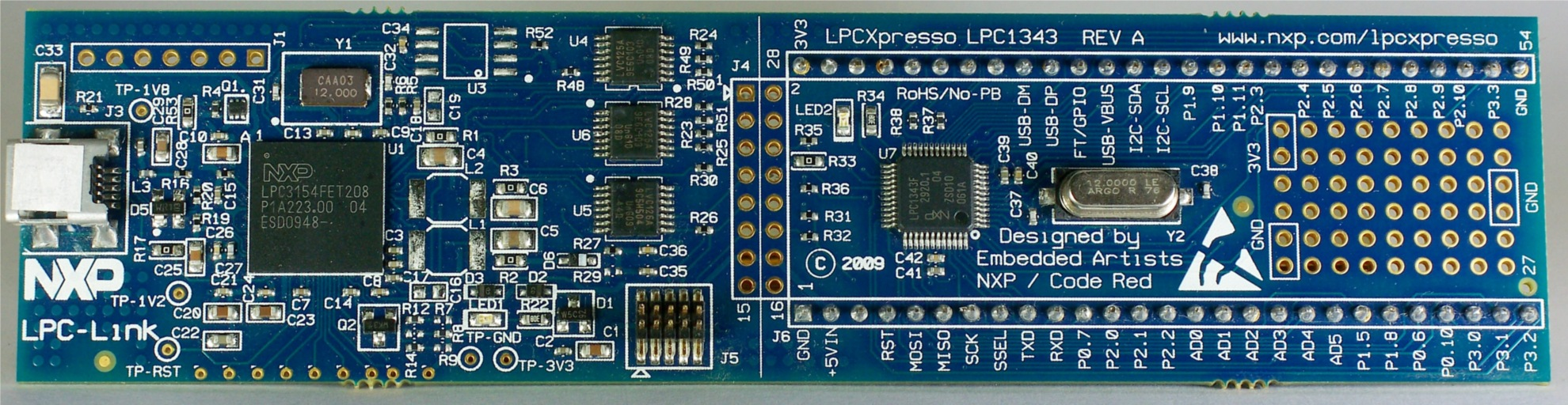 LPCXpresso Development Board for NXP LPC1343 (ARM Cortex-M3) Microcontroller with LPC-Link Debugger